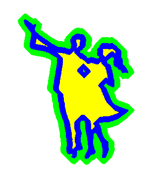 Example of morphological operations